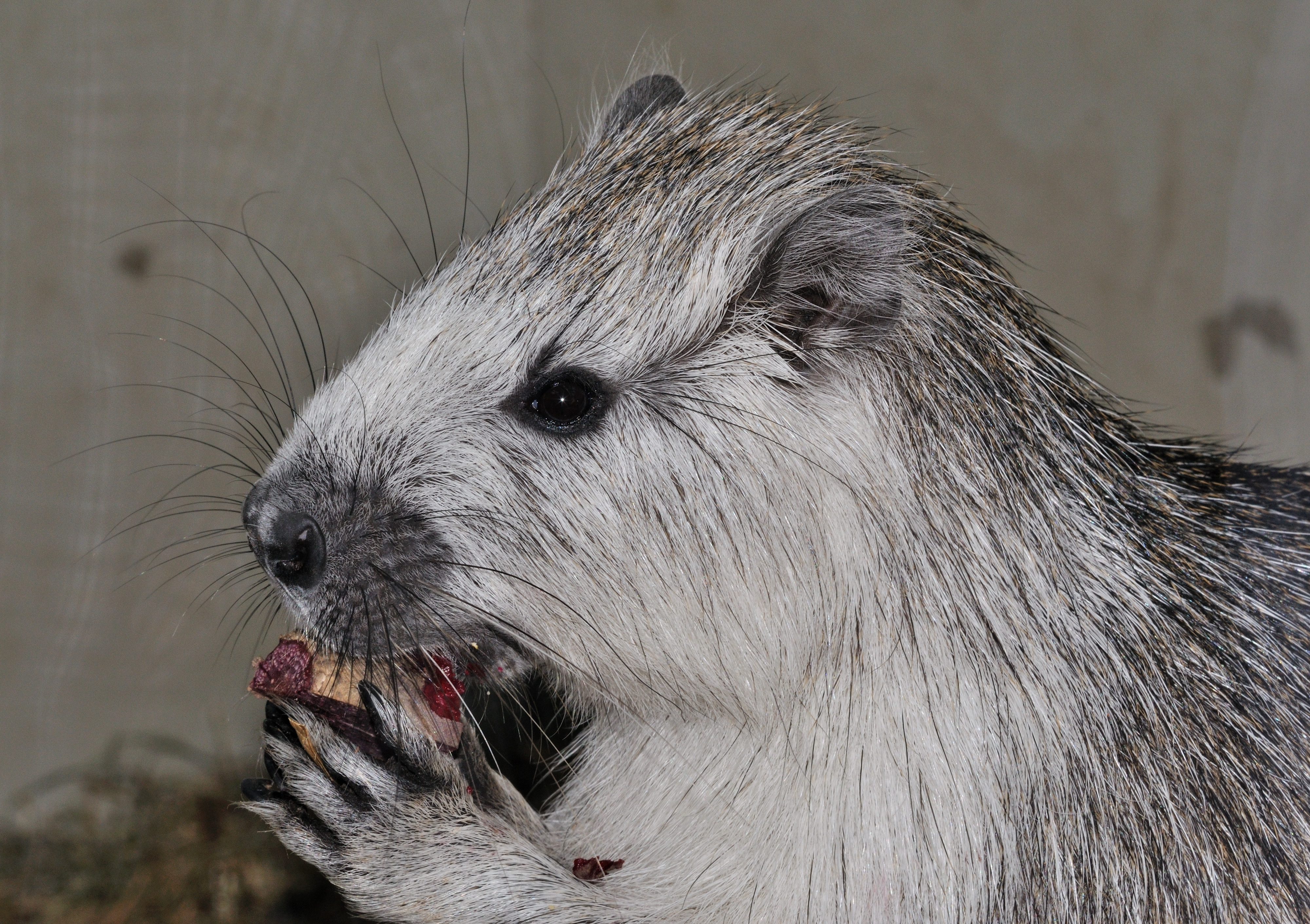 Portrait of a Desmarest's Hutia (Capromys pilorides) feeding in the Wilhelma, Stuttgart, Germany.